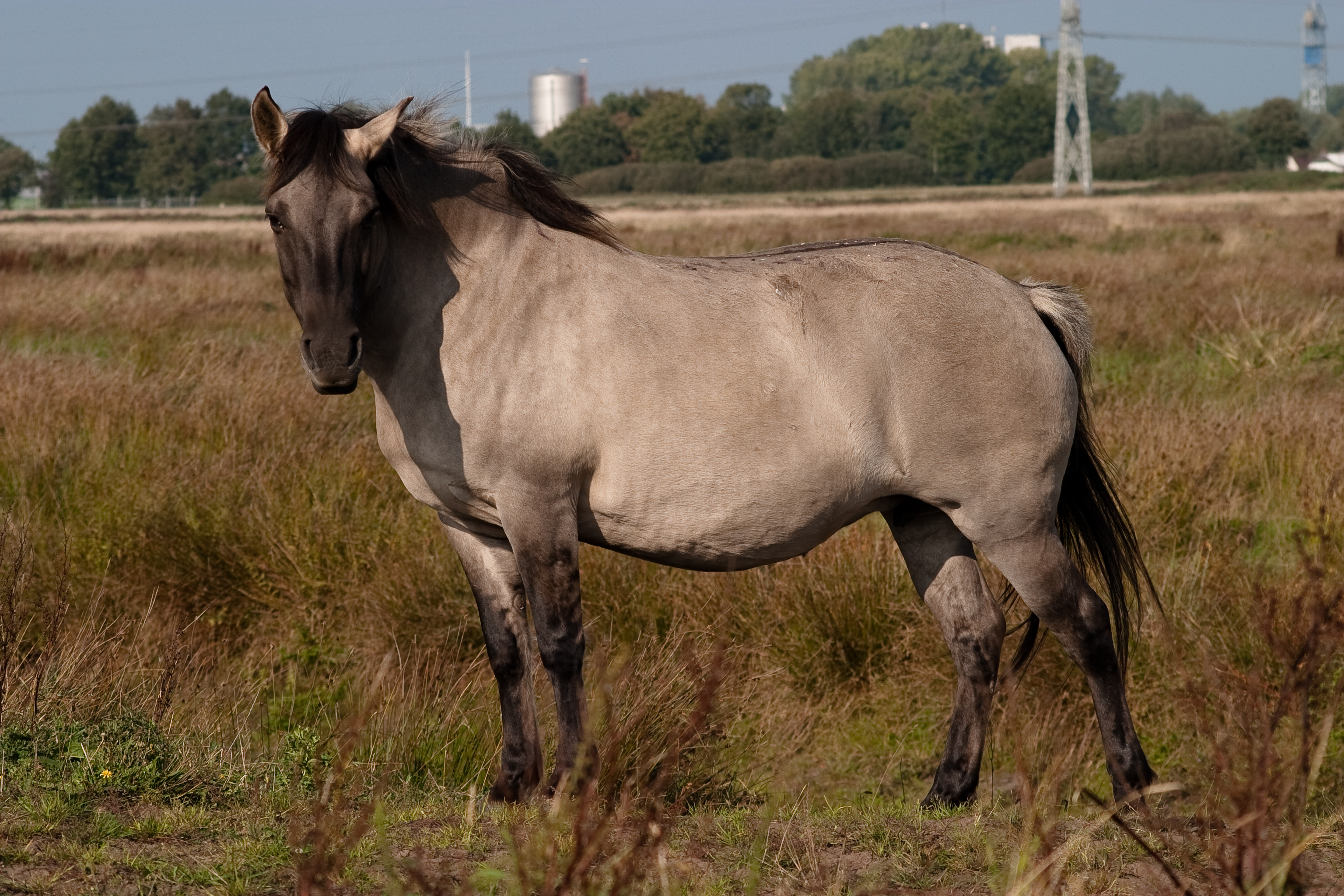 From Wikipedia: The Konik (Polish: konik polski) or Polish primitive horse is a small horse, a kind of semi-wild pony, originating in Poland. The Polish word konik (plural koniki) is the diminutive of koń, the Polish word for "horse" (sometimes confused with kuc, kucyk meaning "pony"). However, the name "konik" or "Polish konik" is used to refer to certain specific breeds. Koniks show many primitive features, for example some breeds have the dun coat and dorsal stripe. In 1936, Professor Tadeusz Vetulani of Poznań University began attempts to breed the recently extinct tarpan back to its original state. To achieve this he used horses from the Biłgoraj area descended from wild tarpans captured in 1780 in Białowieża Forest and kept until 1808 in Zamoyski zoo. These had later been given to local peasants and crossbred with domestic horses. The Polish government commandeered all the koniks that displayed tarpan-like features. The result of this selective breeding program is that semi-wild herds of koniks can be seen today in many nature reserves and parks, and can also be seen in the last refugium in Białowieża Forest. These horses are quite common in Dutch reserves and I literally met these on a biking path today.